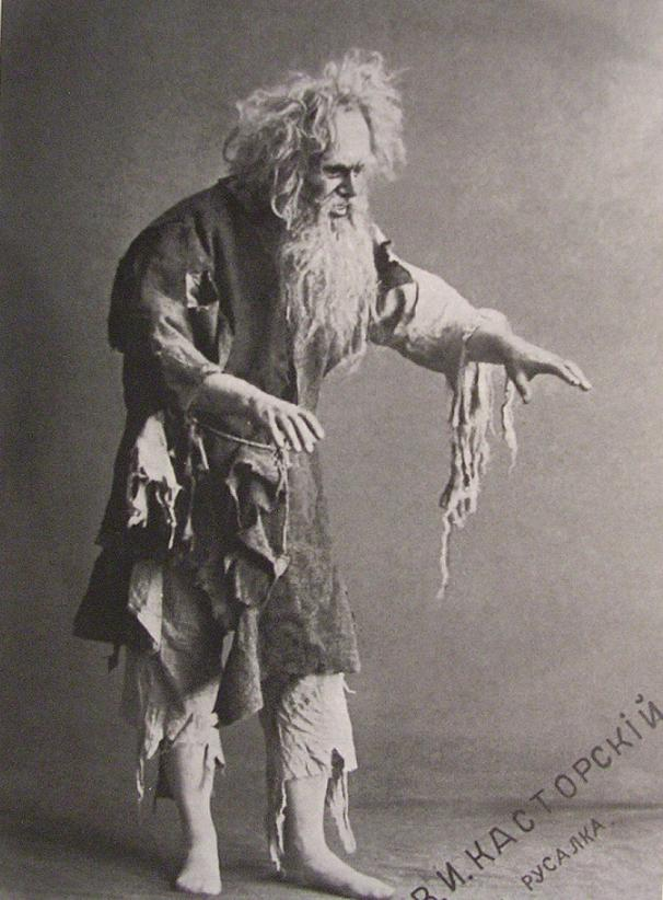 Photo of Russian opera singer Vladimir Kastorsky (1870-1943) as the Miller in "Rusalka" by A. Dargomyzhsky